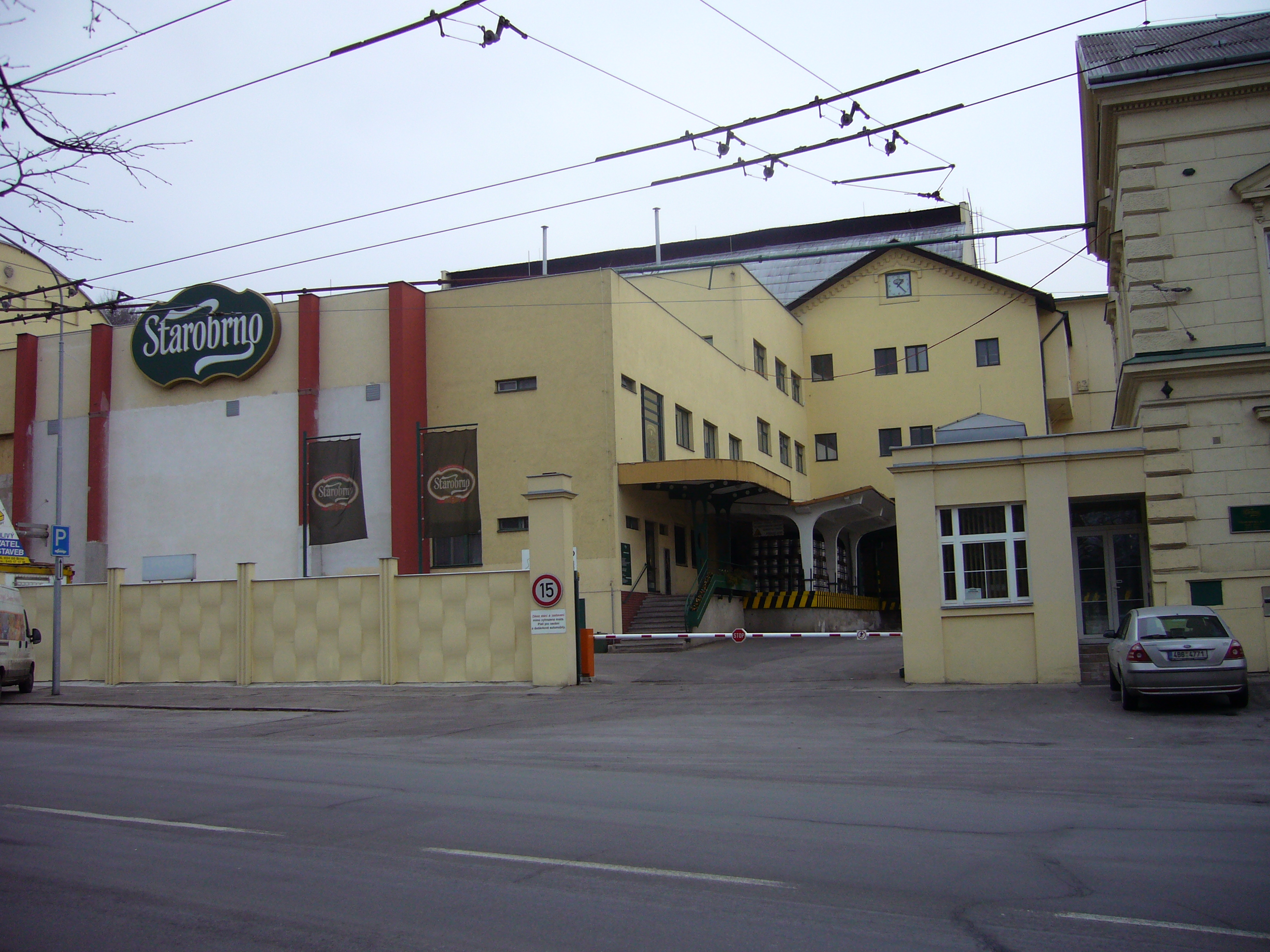 The main entrance of the "Starobrno" brewery at Hlinky street, Brno